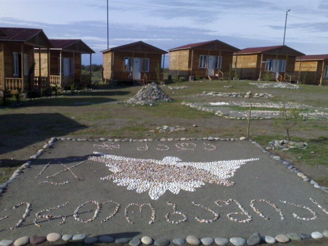 Ganmukhuri Patriot Camp before burning